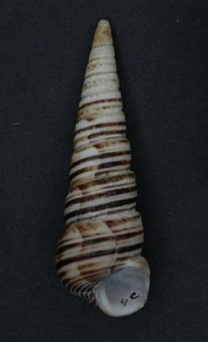 A photograph of the seashell Turritella cingulata G. B. Sowerby I, 1825[1] (underside view). Specimen from Chile and deposited in the collection of the Naturalis Biodiversity Center.